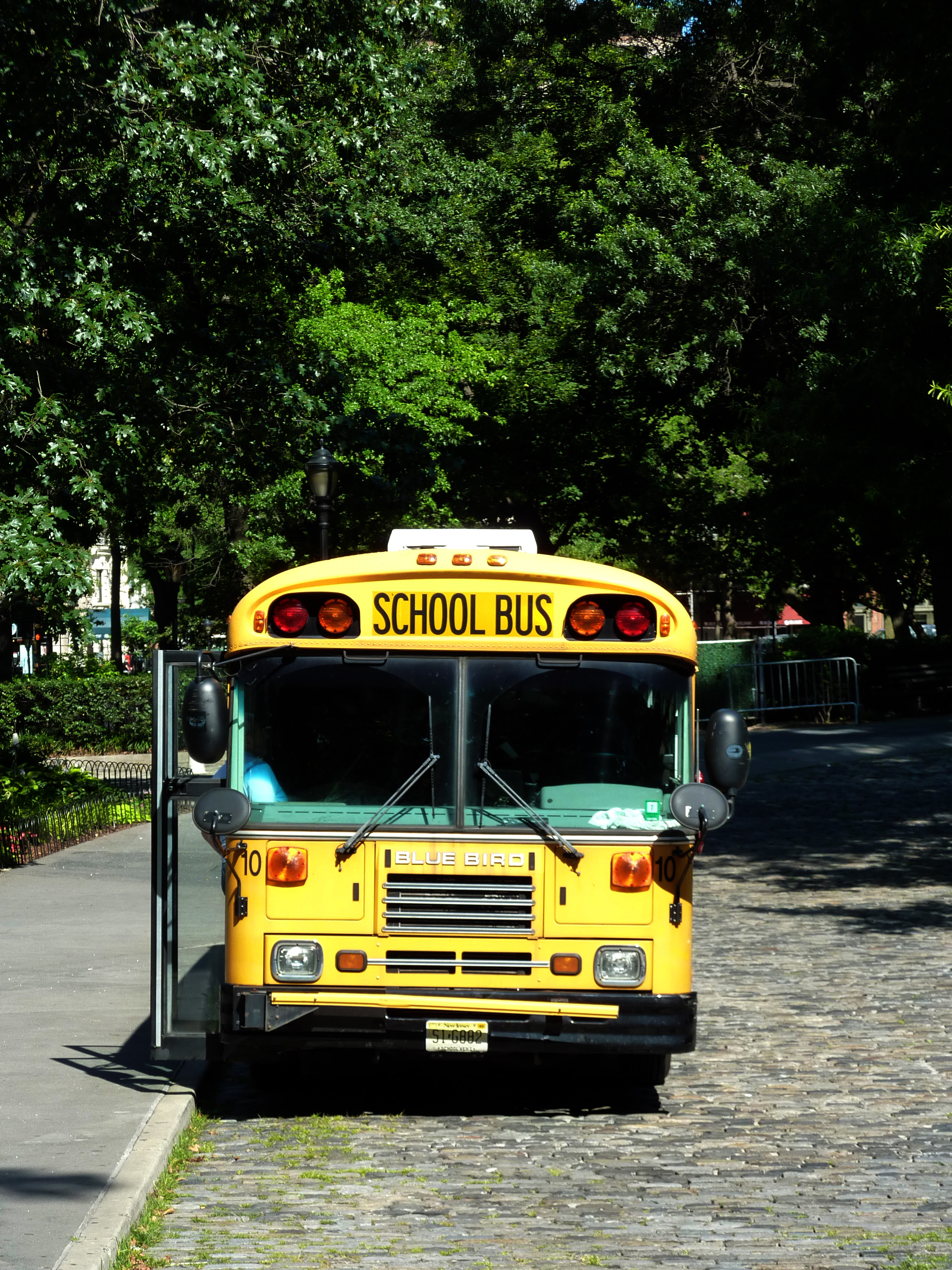 Front view of American Type D (transit-style) school bus. Bus is a late 1990s-early 2000s Blue Bird TC/2000 body on a Blue Bird chassis.